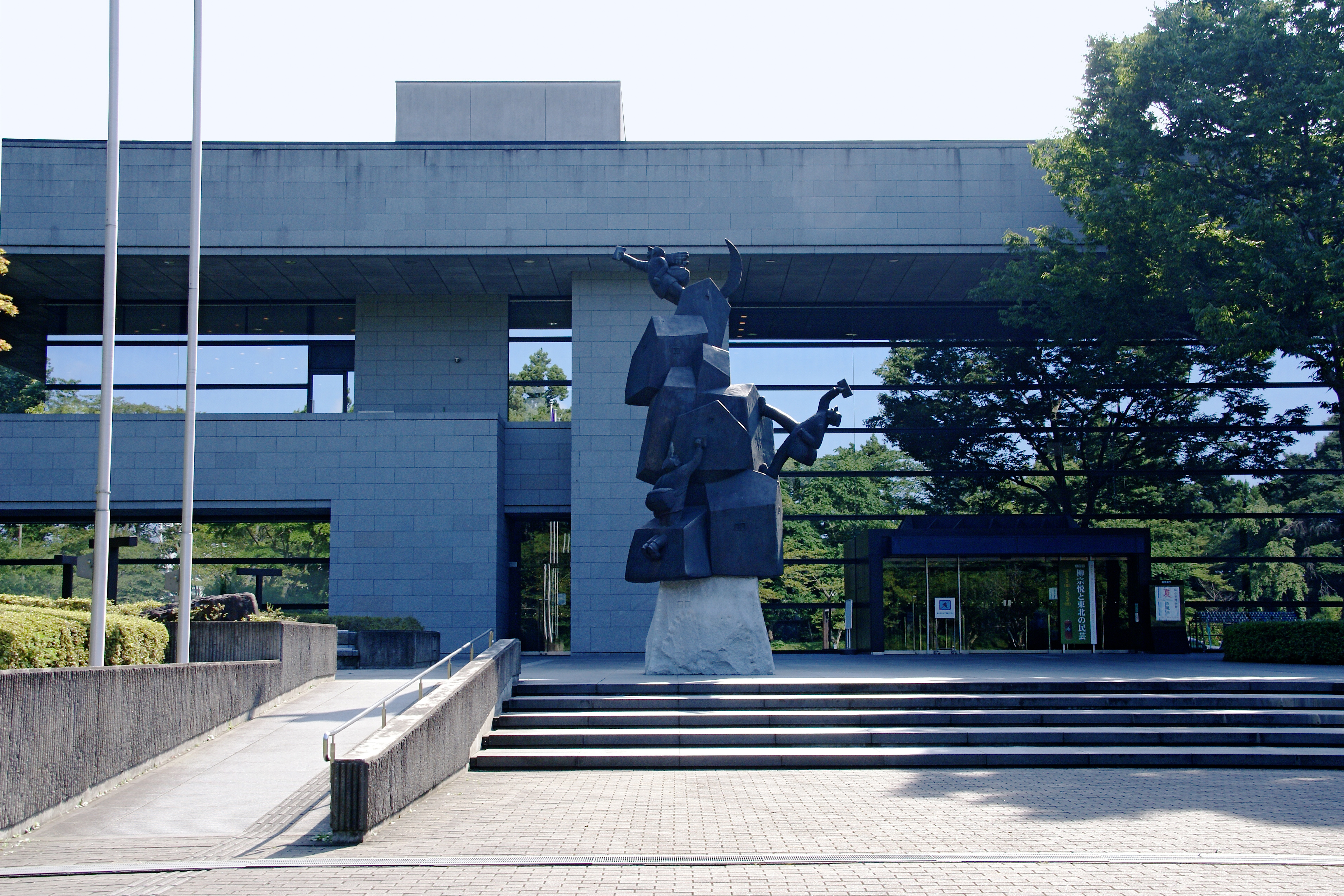 Sendai City Museum in Sendai, Miyagi prefecture, Japan